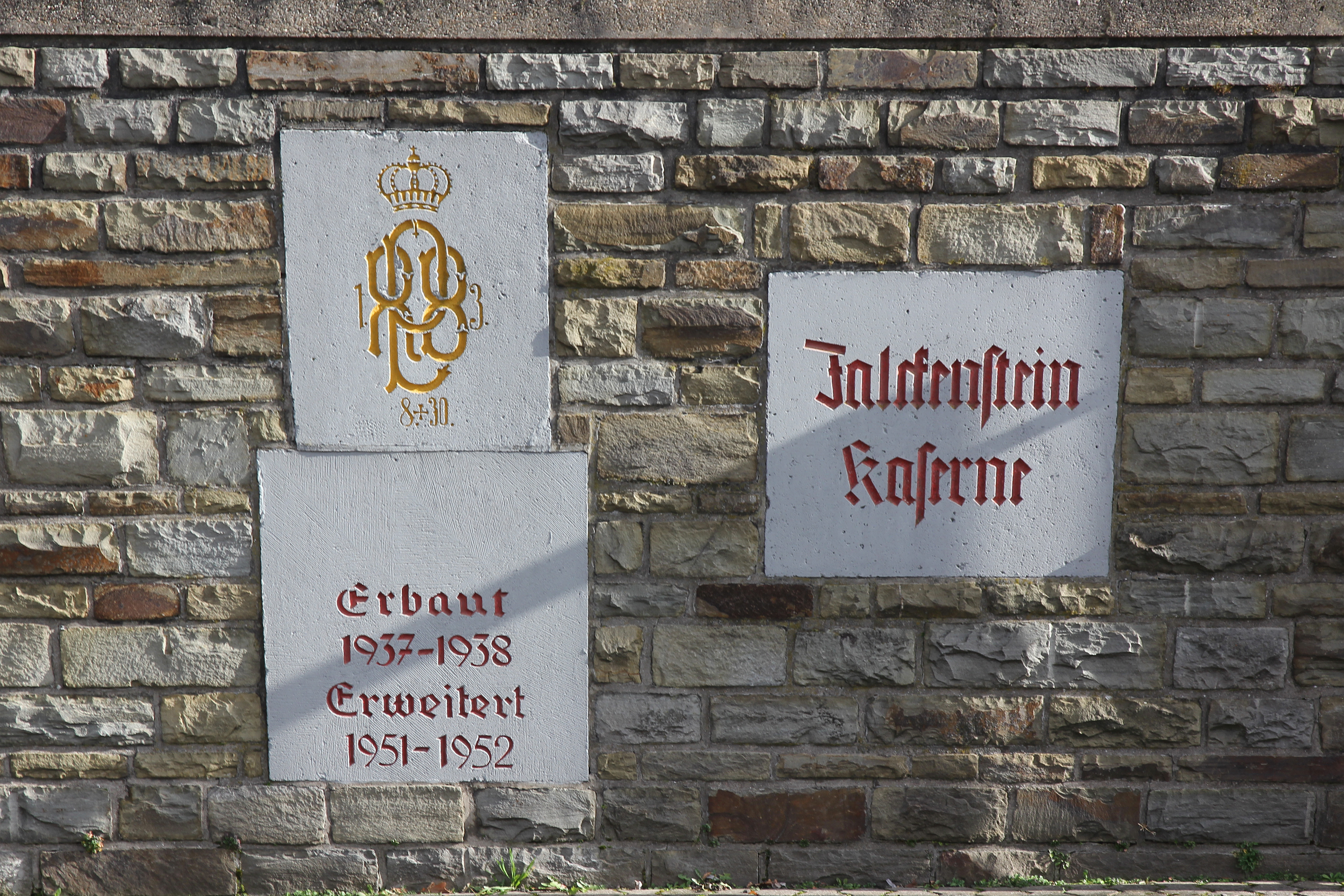 Falckenstein-Kaserne in Koblenz